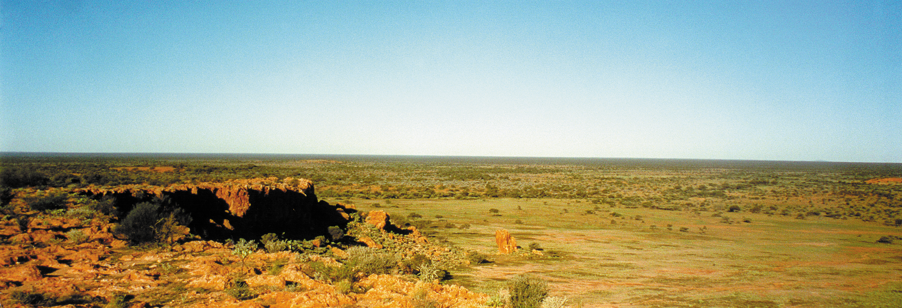 Australia and South Africa have been short-listed as the countries to host the Square Kilometre Array (SKA), a giant next-generation radio telescope being developed by scientists in 17 countries. The SKA will be a set of thousands of antennas spread over 3000 kilometres, with half the antennas located in a 'core' site of 5 x 5 kilometres. The proposed core site in Australia is Mileura station, 100 km west of Meekathara in Western Australia. Other antennas would be distributed over the continent; still more might be placed in New Zealand. The Australian site submission was developed by the Australian SKA Planning Office in CSIRO, with the help of the WA Government and consulting firm Connell Wagner. A key requirement of the core site is very low levels of man-made radio signals, which could mask the faint cosmic radio waves the telescope is designed to detect. Both the Australian and South African sites can see much of the same sky as the world's other major telescopes. Both have a good view of the southern sky, which is where the centre of our Galaxy goes overhead. And both have stable ionospheric conditions, important for low-frequency observations. The final siting decision is expected by 2010.